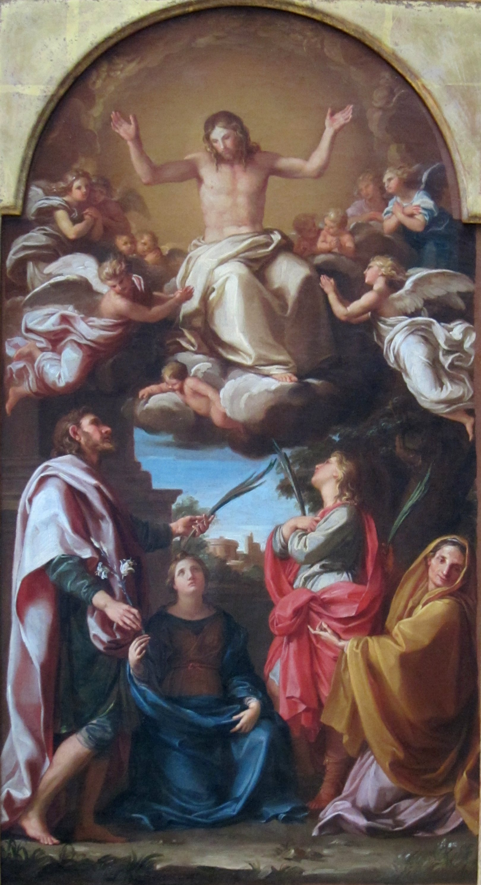 Christ with saints Julian, Basilissa, Celsus and Marcionilla, by Pompeo Battoni, 1736-38. Los Angeles, Getty Museum